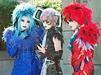 Cosplay of Japanese visual kei rock band Malice Mizer.